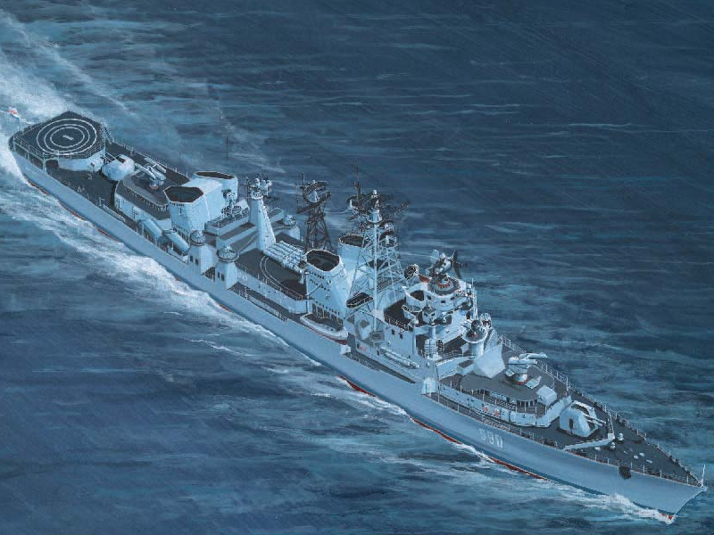 Overhead view of Soviet Kashin class destroyer